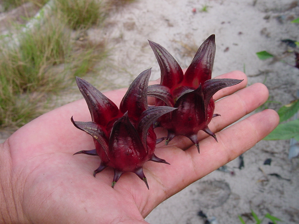 A roselle variety planted in Malaysia. Roselle fruits are harvested fresh, and their calyces are made into a pro-health drink rich in vitamin C and anthocyanins. (Author: Dr. Mohamad bin Osman, Universiti Kebangsaan Malaysia (UKM), )